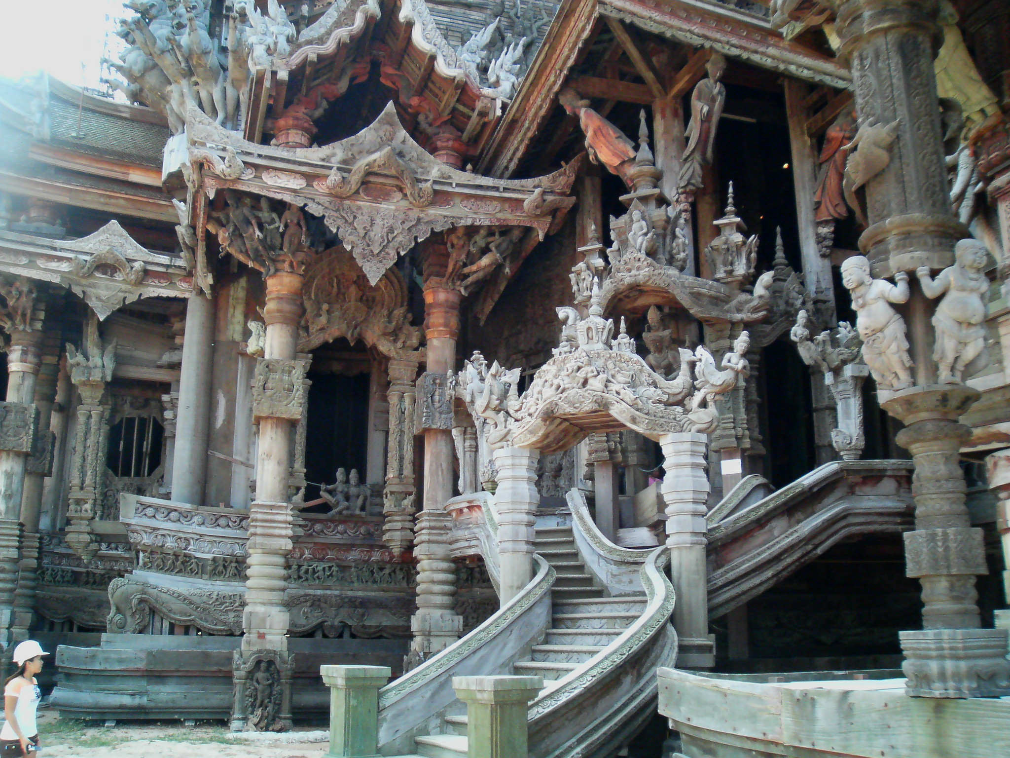 Description: The Sanctury of Truth, Thailand. Source: self-made Date: December 2007 Author: Brenden Brain copyright 2007